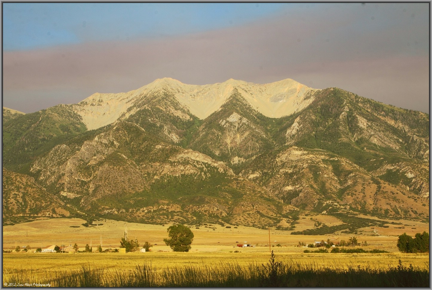 Mt Nebo, in the Wasatch Range of Utah.